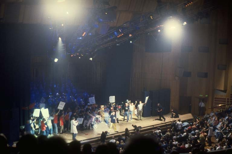 Date: taken 2 September 1997, released 17 May 2006. Author: Anders Haltman Permission: "It would be an honour" A photograph of 2K's 23-minute performance at the Barbican Arts Centre, London, of en:2 September en:1997. The image is to be used in the related article "Fuck the Millennium" to illustrate this performance. The image depicts a later part of the performance in which Liverpool Dockers join Drummond, Cauty and Acid Brass on the stage. Licensing Category:The KLF images